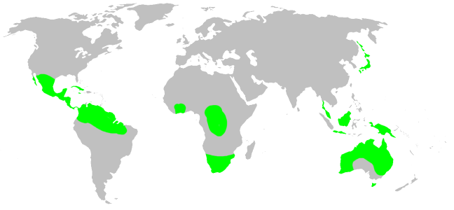 Symphytognathidae habitat distribution, drawn after Platnick: World Spider Catalog 7.0. This is not a precise rendering of the distribution! If you have better information, please replace this map, or send me the info, and i will redraw it.